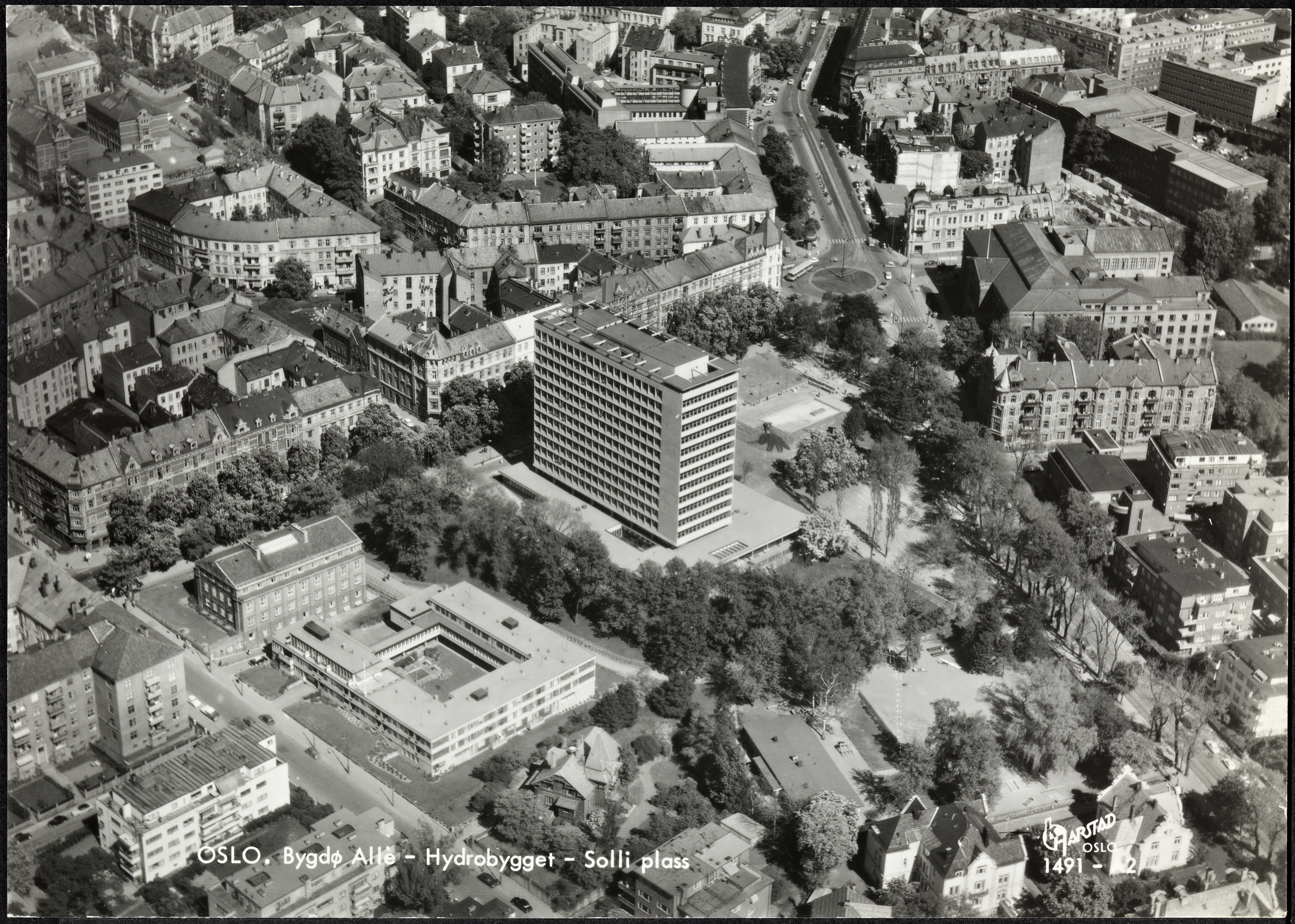 Beskrivelse / Description: Postkort / Postcard. Flyfoto / Aerial photography. Dato / Date: ukjent / unknown Sted / Place: Oslo Fotograf / Photographer: ukjent / unknown Utgiver / Publisher: K. Harstad Kunstforlag, Oslo Digital kopi av original / Digital copy of original: s/h postkort, trykt Eier / Owner Institution: Nasjonalbiblioteket / National Library of Norway Lenke / Link: Bildesignatur / Image Number: bldsa_PK05537